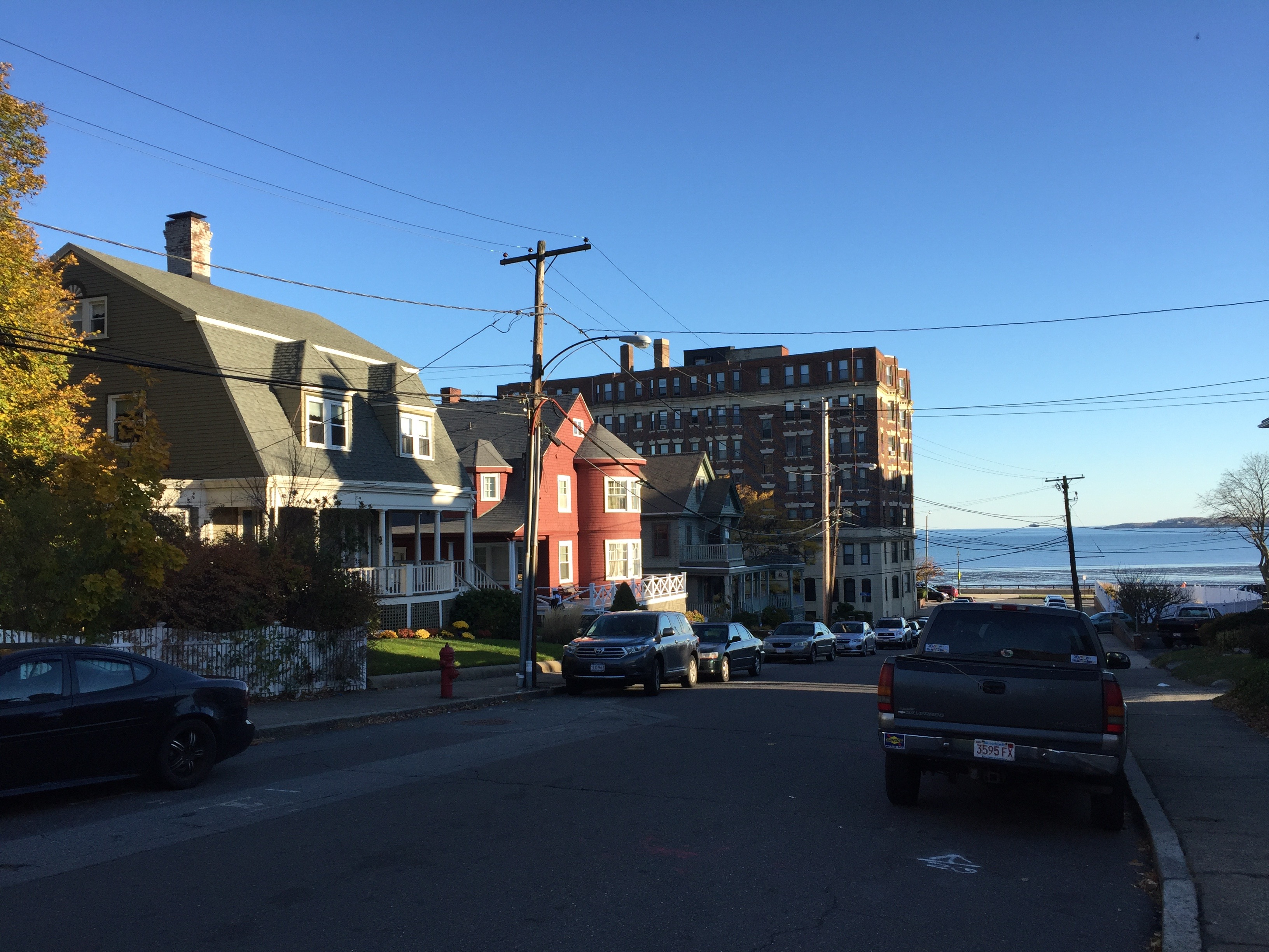 Easterly view of Wave Street in the Diamond Historic District in Lynn, Massachusetts